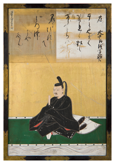 Sanjūrokkasen-gaku (Thirty-six Poetry Immortals framed picture) #23: Ōnakatomi no Yoshinobu Asomi